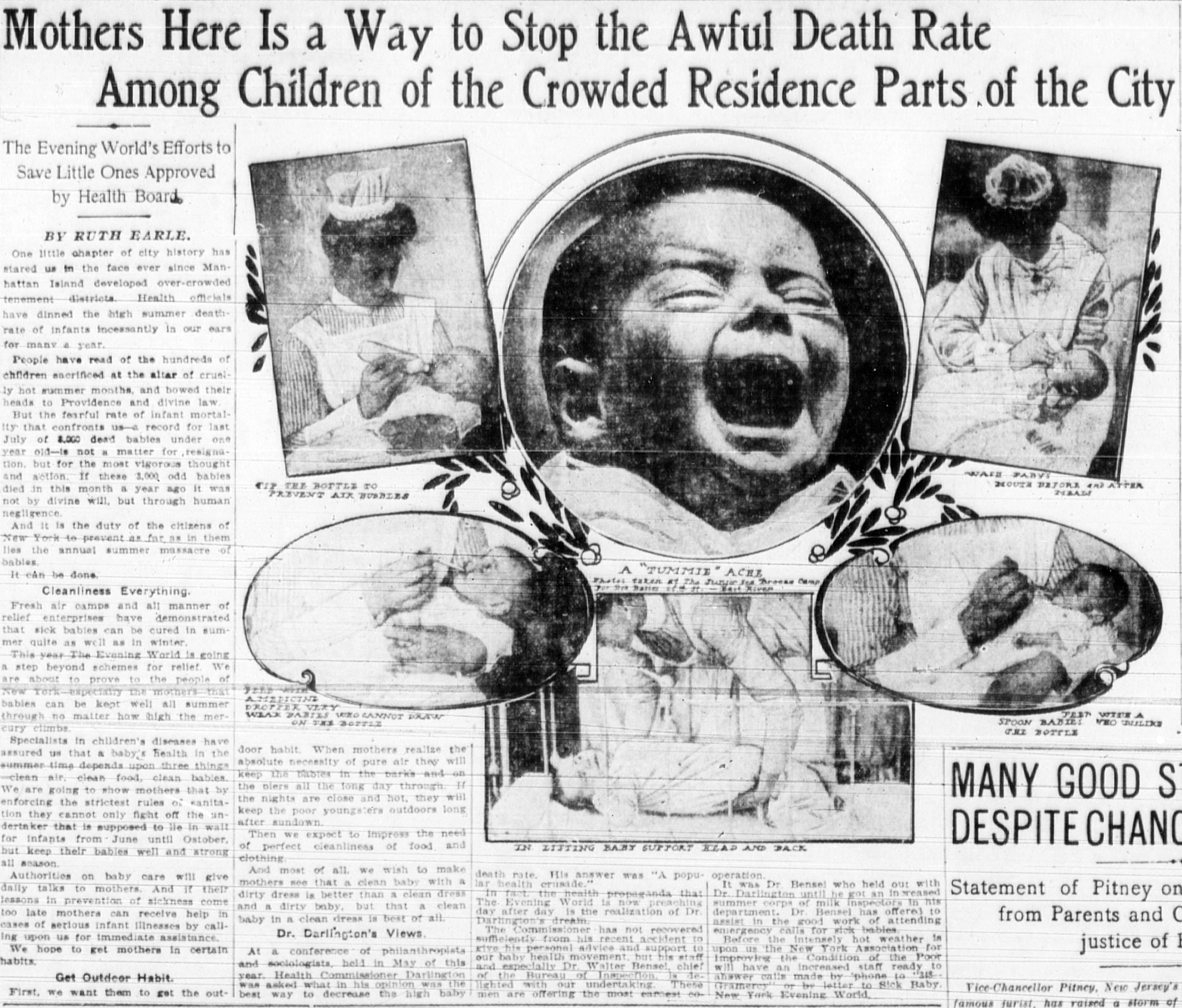 Article in The Evening World, NY, July 14th, 1906 describing the record 8,000 infants who died the previous year and imploring parents to attend to the cleanliness of their infants along with exposing them to the "clean air" outdoors.